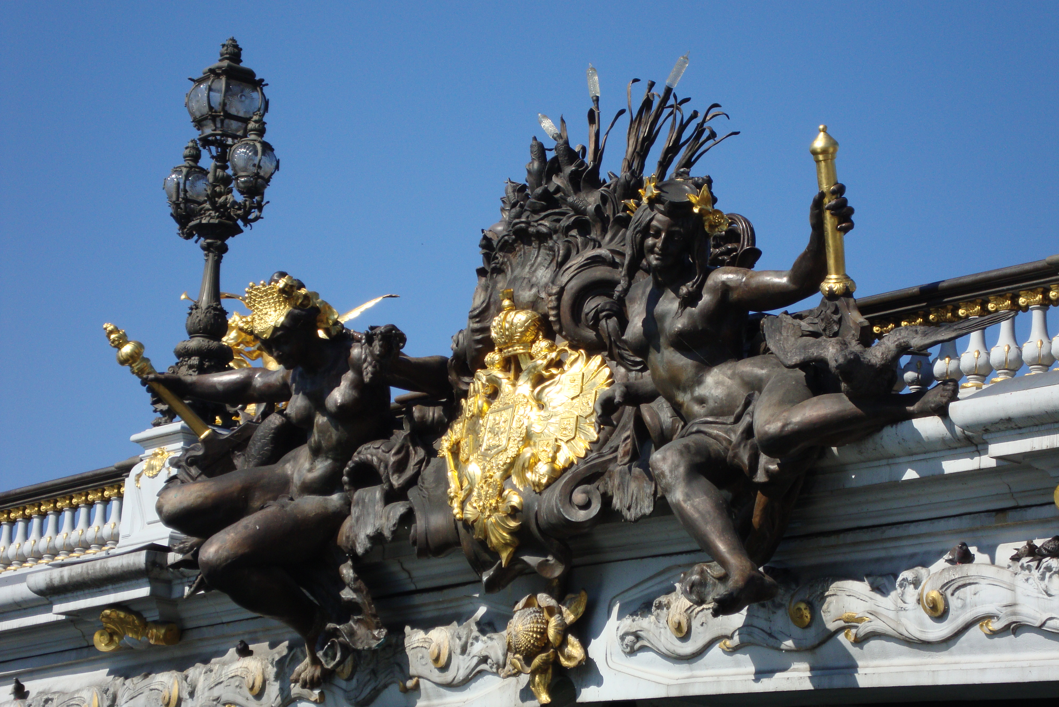 Nymphs of Neva river with the coat of armes of Russia on the Pont Alexandre III in Paris